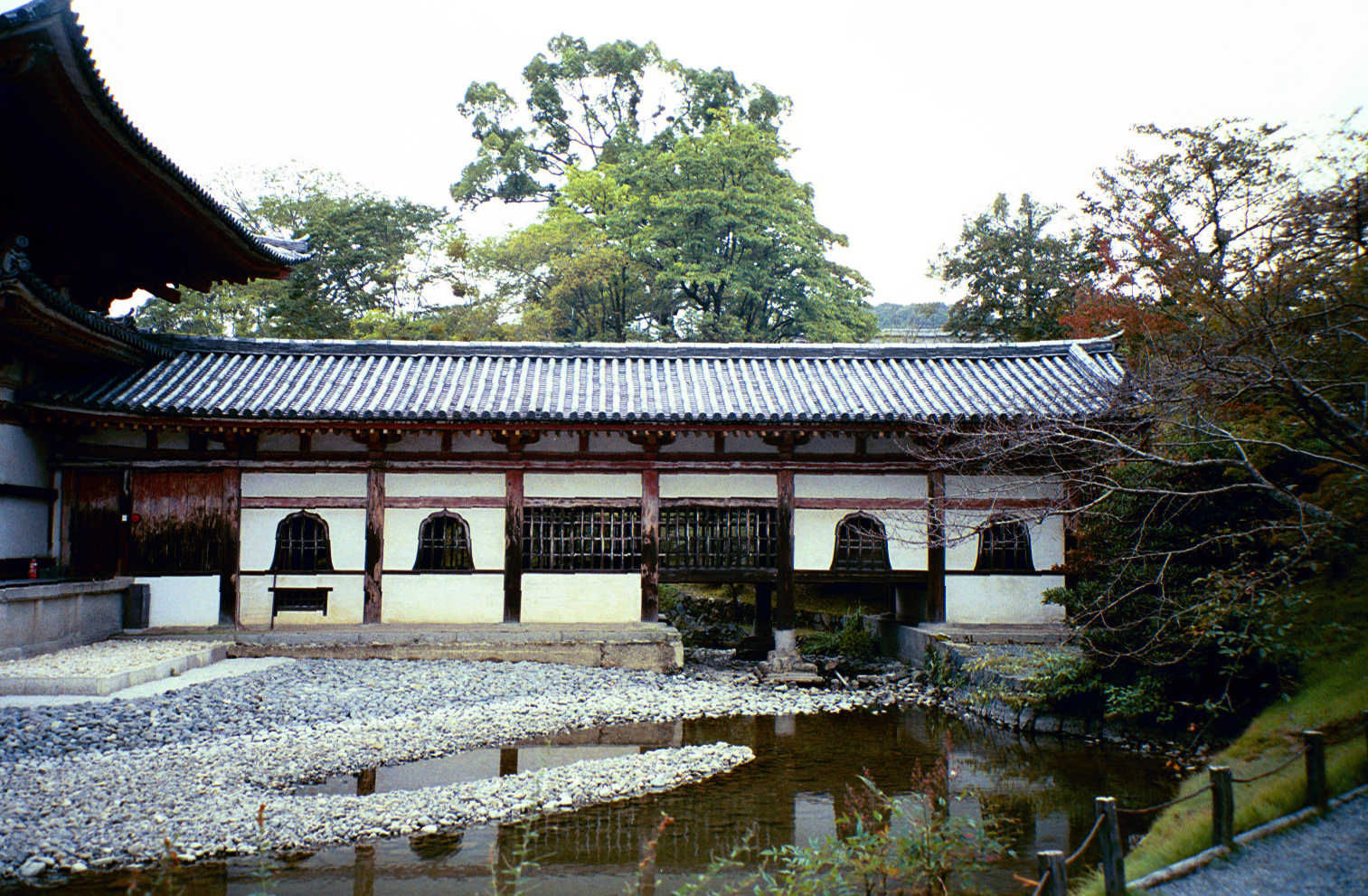 Additional evidence of Chinese architectural influences can be seen in this covered walk, with scenery-viewing windows, that extends from the rear of the villa.